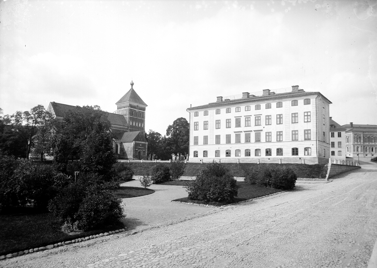 Folkskoleseminariet - Dekanhuset och Helga Trefaldighets kyrka från Riddartorget, Uppsala 1890. Upplandsmuseet: OB0006 Flickr data on 2011-08-24: Tags: Uppsala, Uppland, Sweden License: CC BY 2.0 User: Upplandsmuseet Upplandsmuseet Länsmuseum för Uppsala län